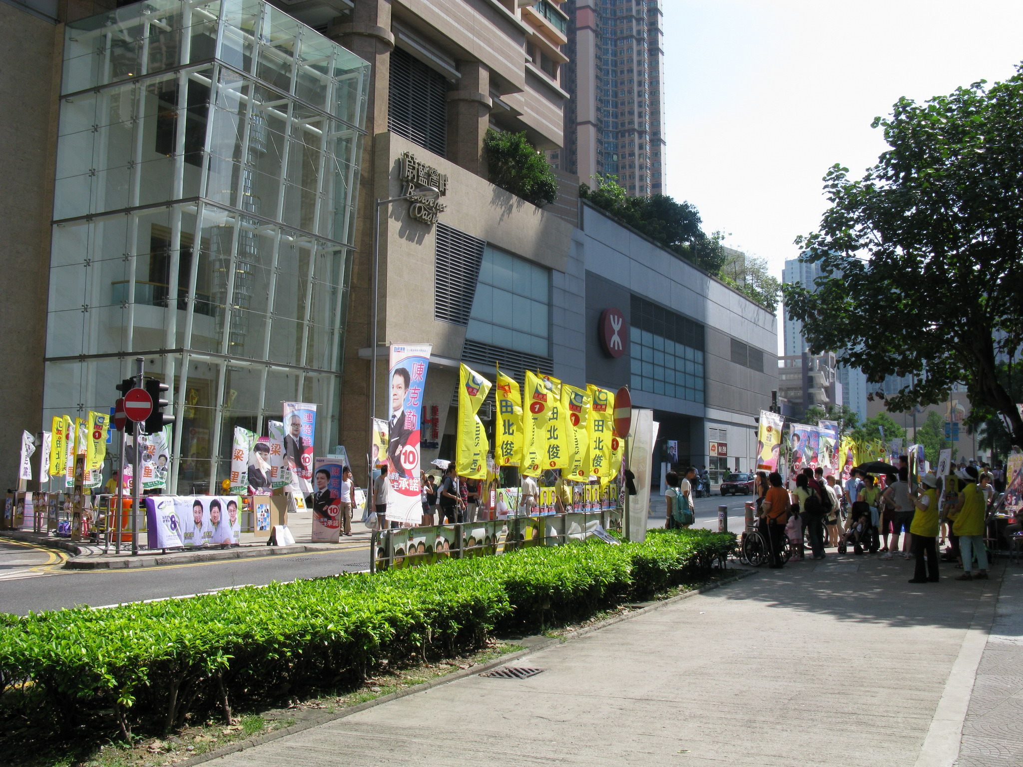 2008 Legislative Council Election New Territories East Geographical Constituency